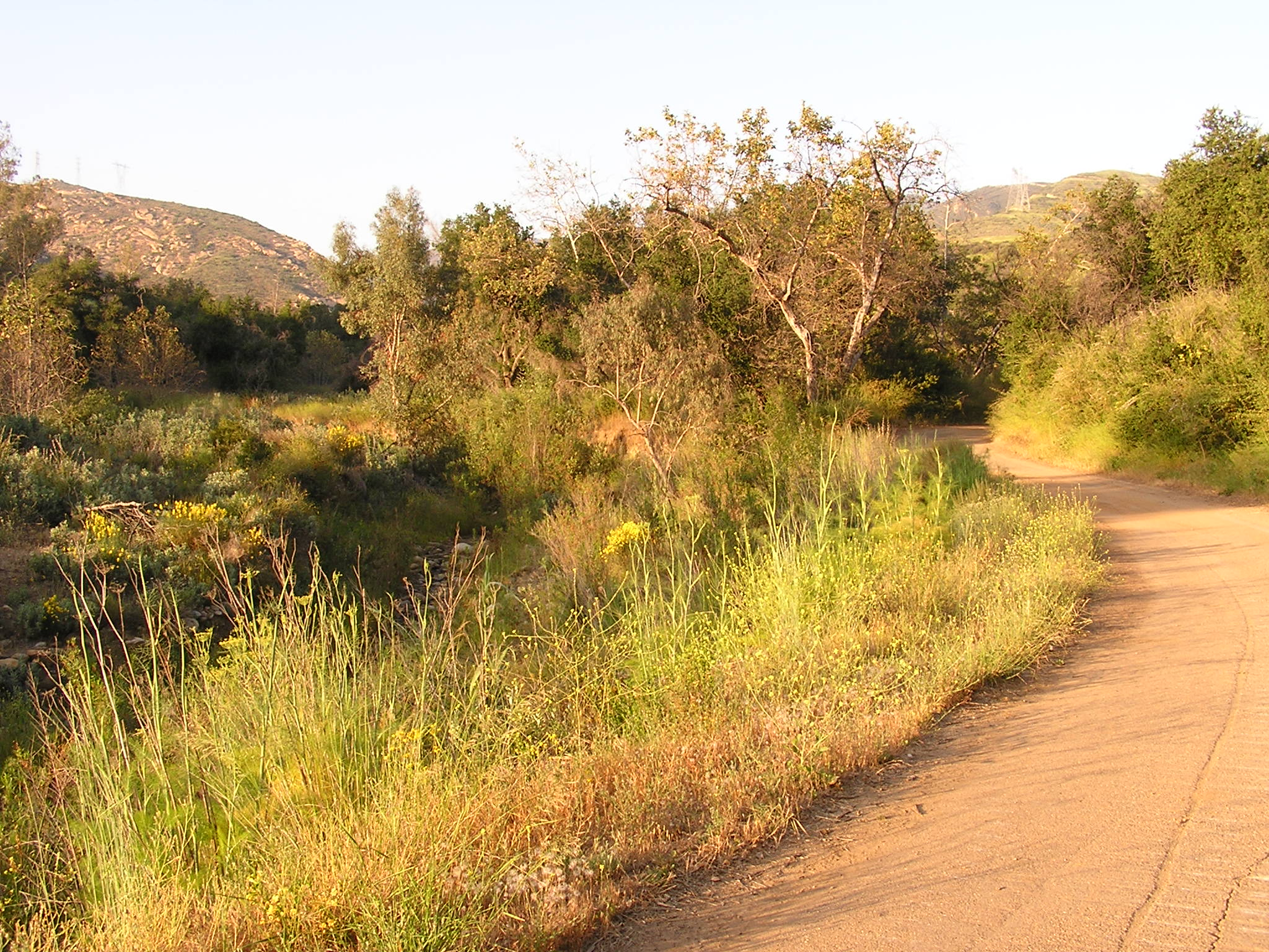 The Black Star Canyon Road, Santa Ana Mountains, Orange County, Southern California. California chaparral and woodlands habitat, with California Sycamore trees in backround (Platanus racemosa).